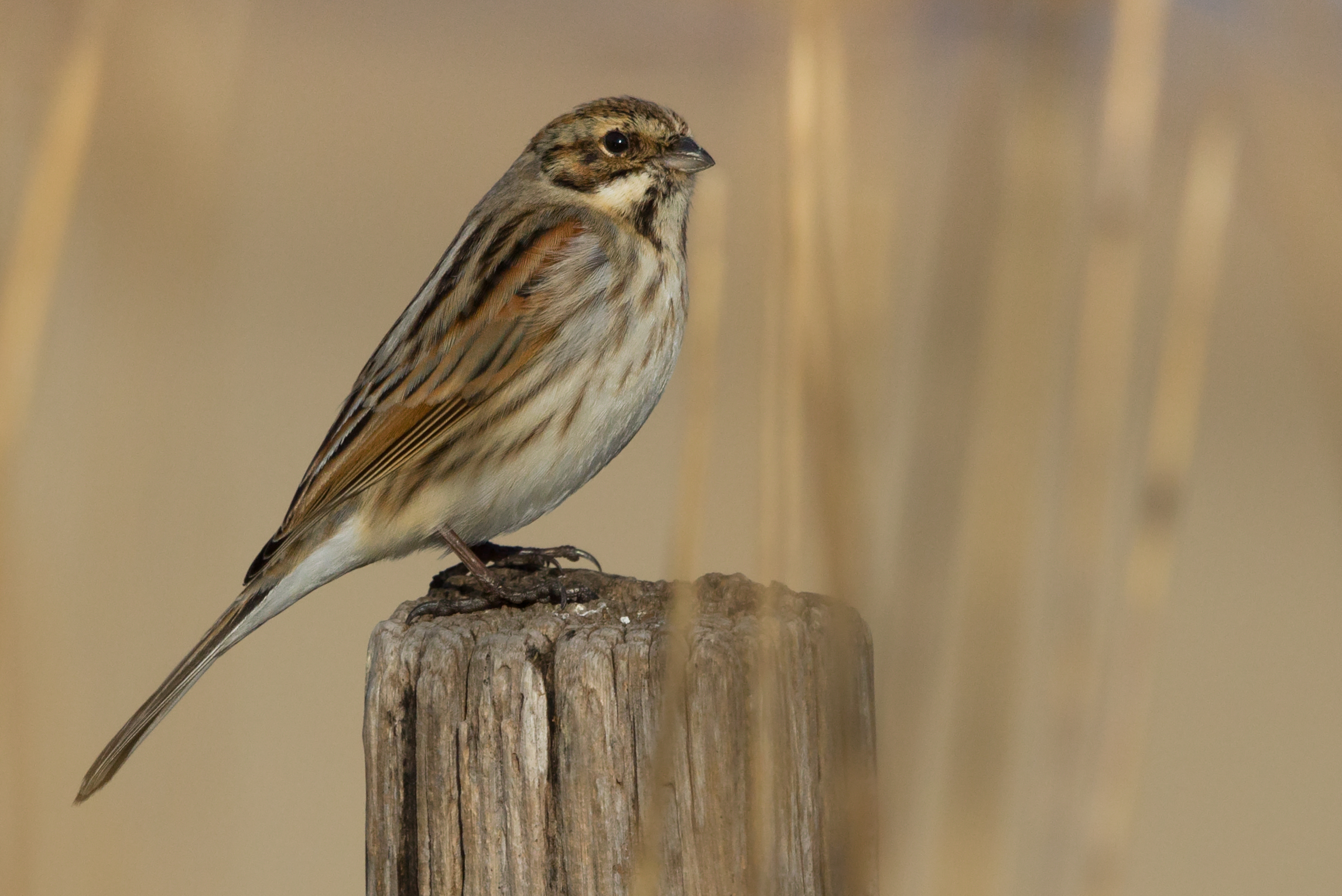 Common Reed Bunting. Female plumage